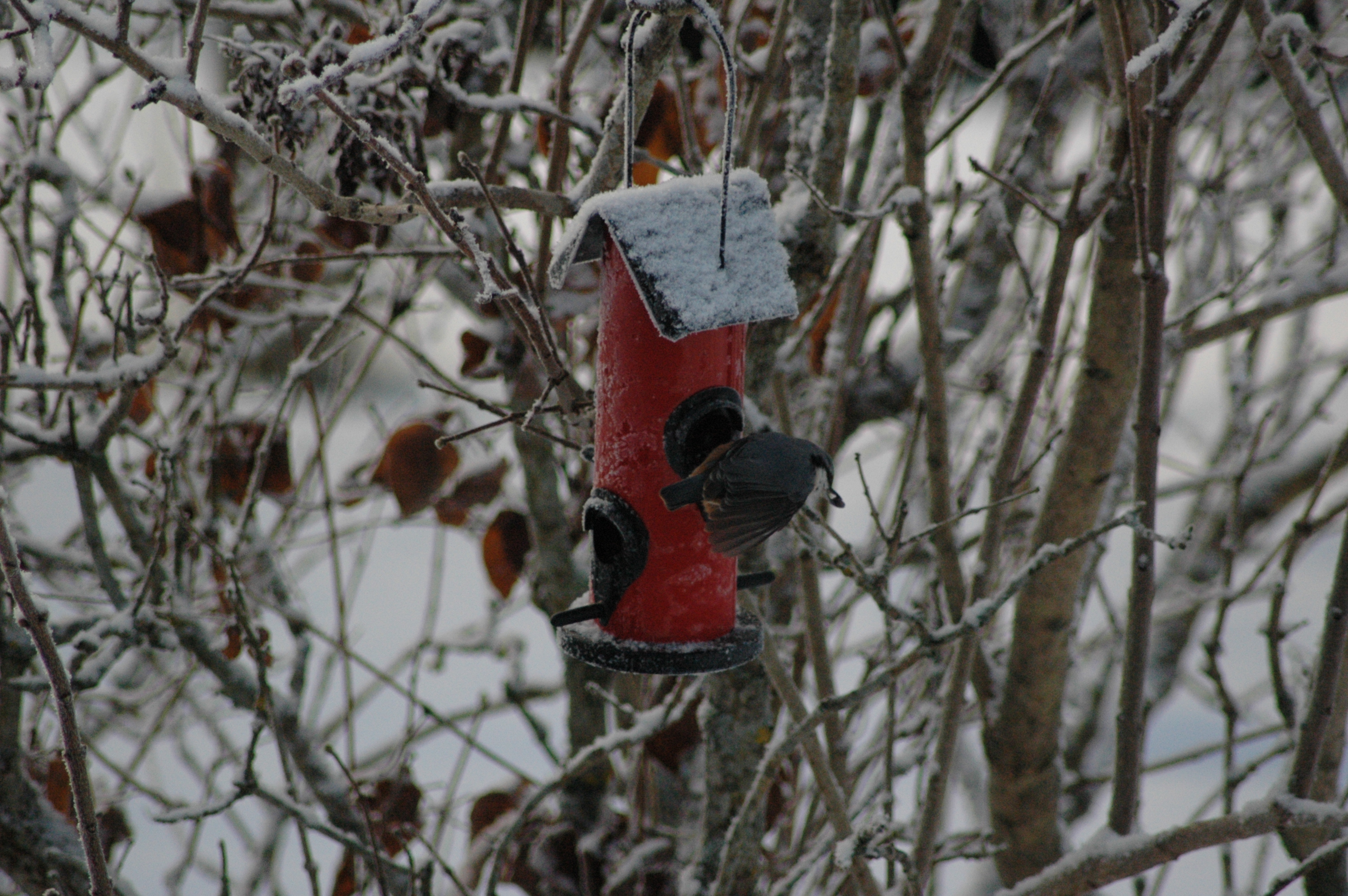 A Sitta Europaea in Jonkoping, in Sweden.